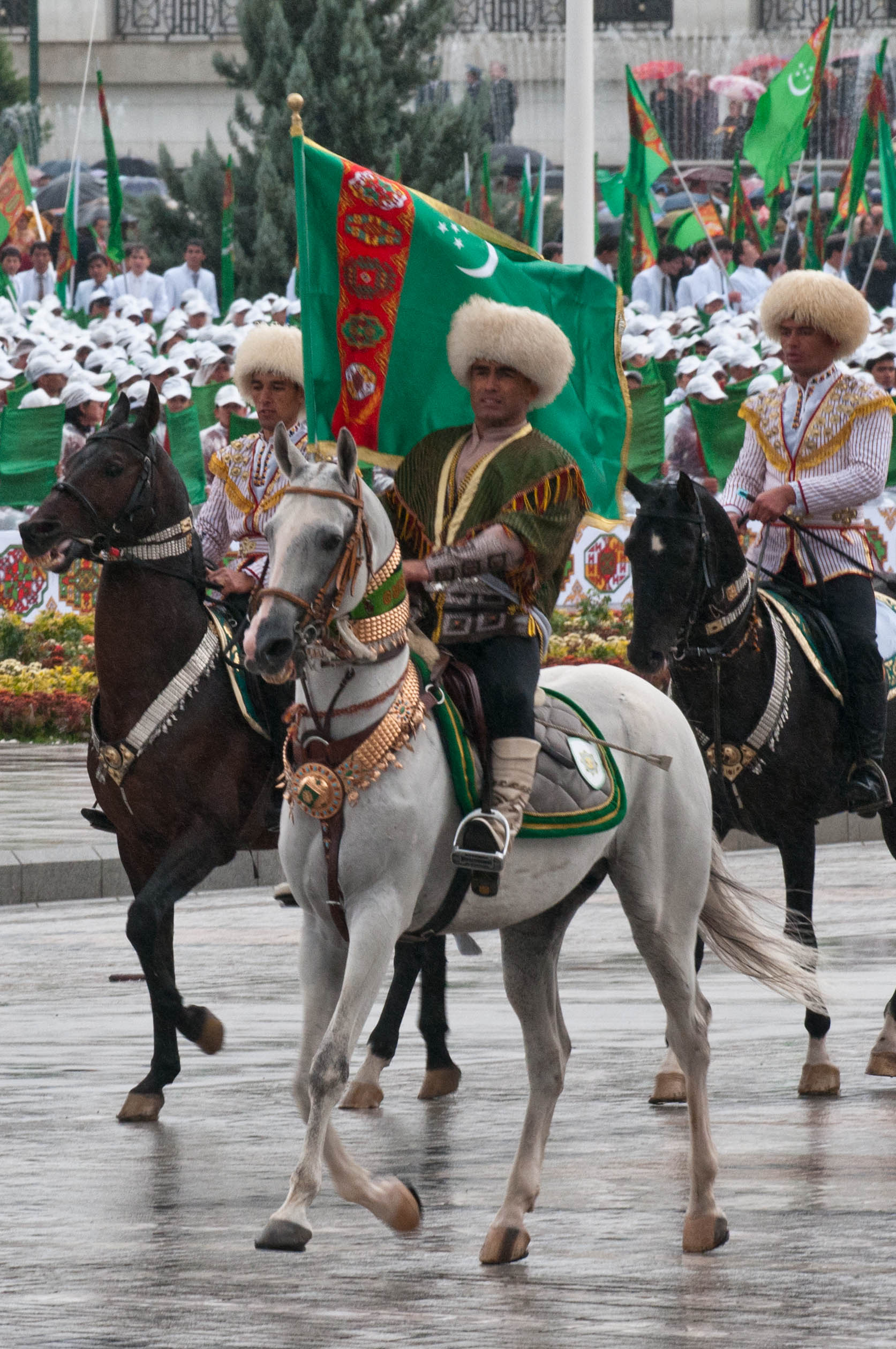 Celebrating the 20th year of independence in Turkmenistan